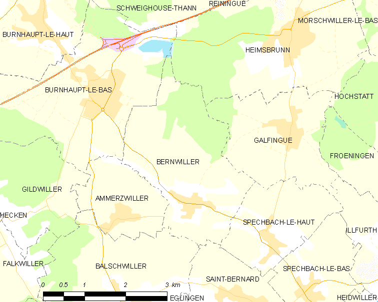 Map of French municipality